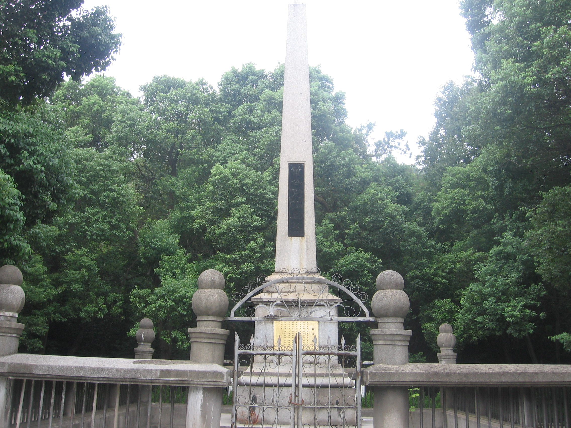 Tomb of Huang Xing, Changsha City, Hunan Province, China.